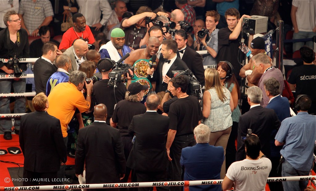 21.05.2011 Fight for the light heavy weight championship Pascal versus Hopkins.